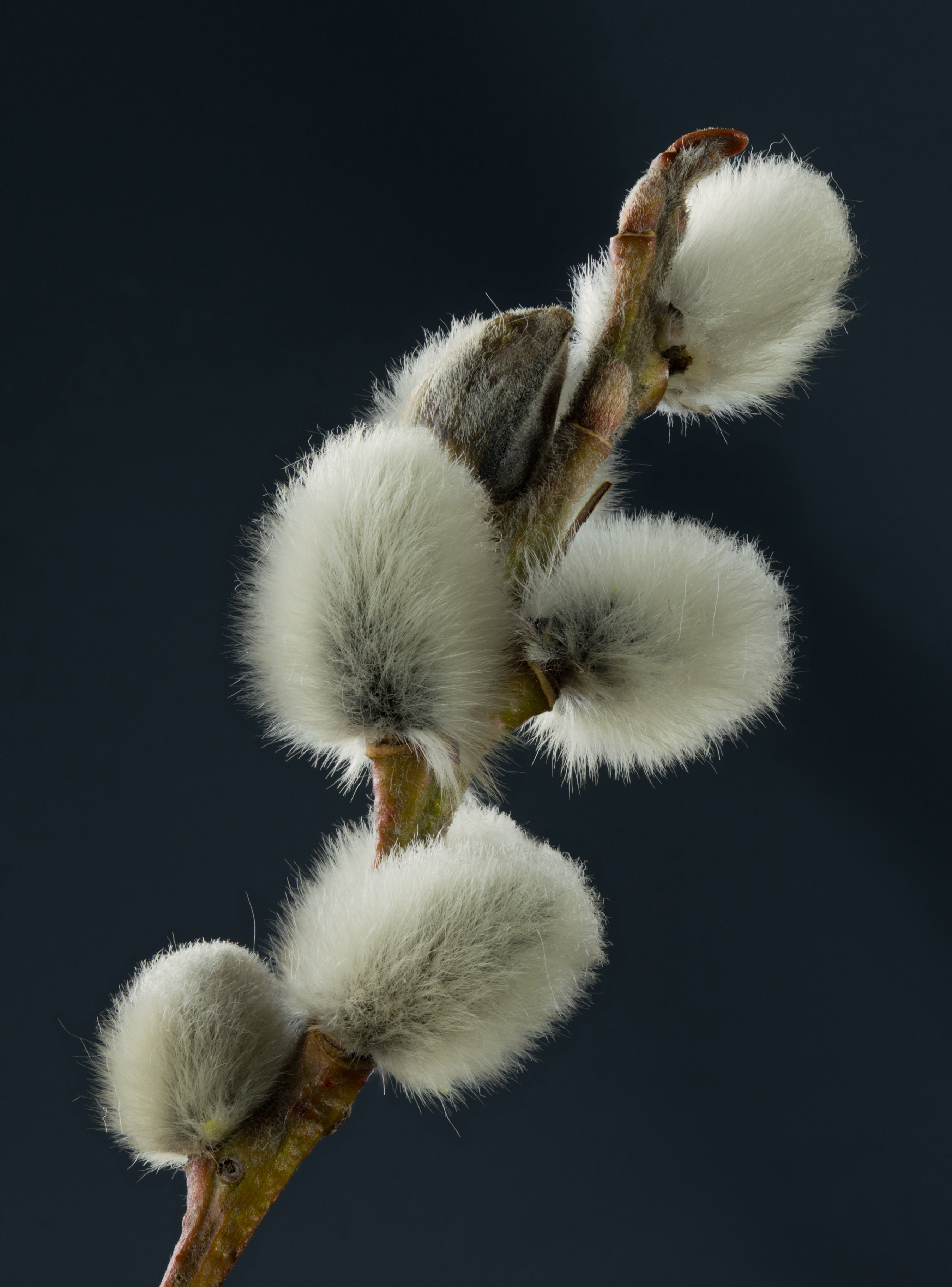 Close-ups of Salicaceae flowers, Weinviertel, bought at Karmelitermarkt, Vienna 2015